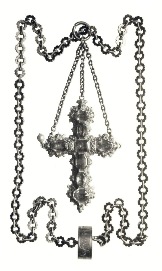 Photograph